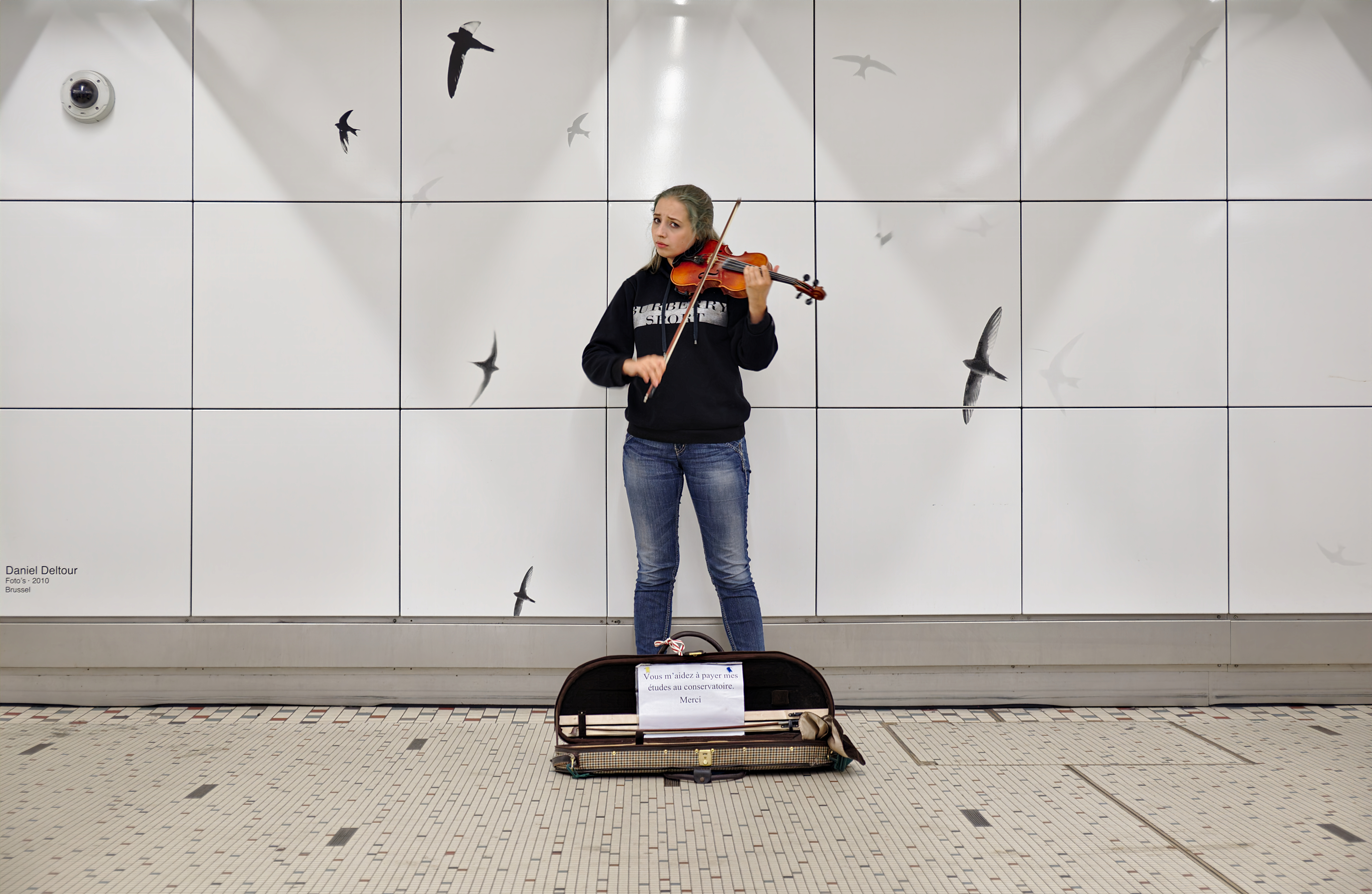 Violinist performing in the tunnel that connects the train and metro portions of Brussels Central Station This photo of immaterial heritage has been taken in the Brussels Capital Region